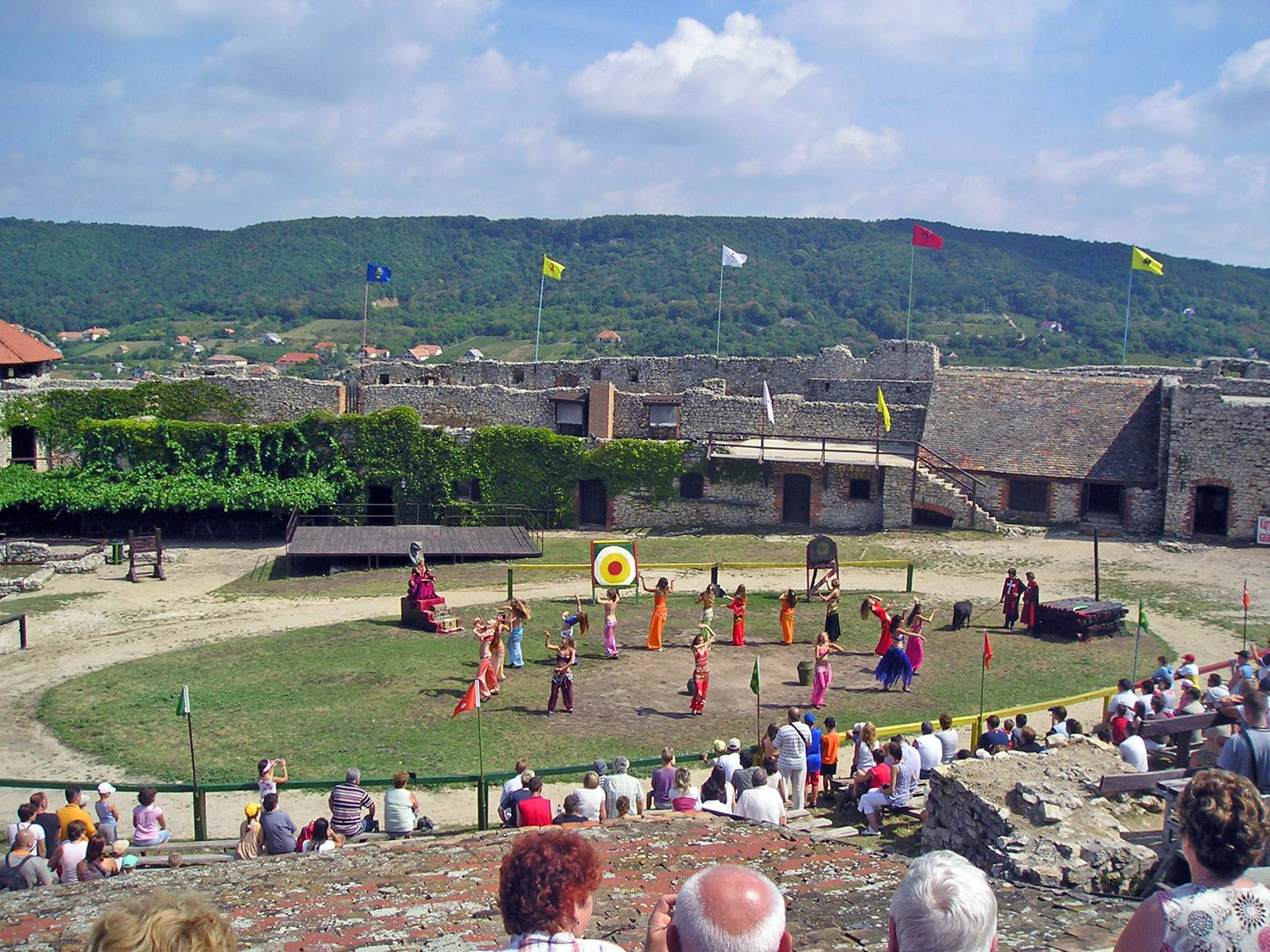 Castle of Sümeg/Hungary/Europe